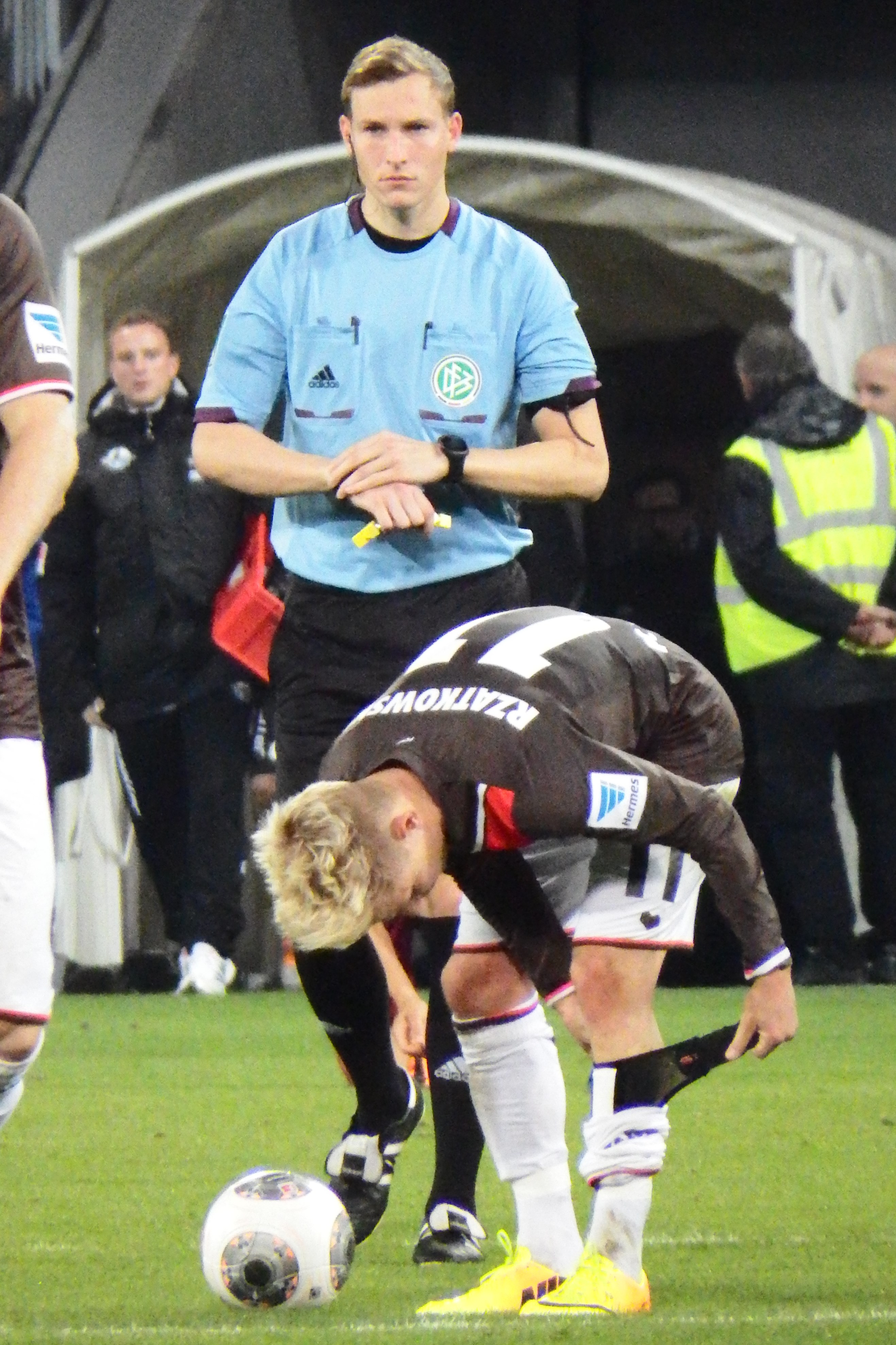 Martin Petersen Schiedsrichter